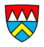 Coat of Arms of Rottendorf